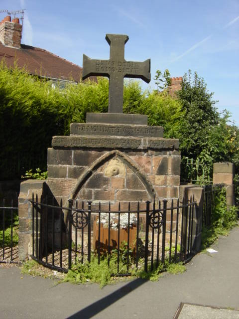 Monks Well, Wavertree. This well is undoubtedly ancient. It used to stand further back from the road, at a point where pure water bubbled out from the sandstone of Olive Mount. In the masonry beneath the original cross was an archway, under which a few steps gave access to the stone cistern or chamber containing the water. Legends about the Monks Well abound and most of the stories involve secret passageways, it seems likely that such legends were sparked off by Victorian children, who spotted the inlet tunnel already referred to, and the outlet pipe which would have channelled the surplus water into Wavertree Lake alongside (where the children's playground is today). In 1834 the Select Vestry - the predecessor of the Local Board of Health - installed an iron pump to lift the water from the underground chamber. They also ordered the Constable to lock the pump during church service times on Sundays, it having been found that "women met at the well when drawing water, and stayed gossiping there". With the arrival of piped water in the 1850s, the well became redundant, and the legends began to grow! Late in the nineteenth century a stone cross - inscribed 'Deus dedit, Homo bebit' (God gives, Man drinks) in accordance with local tradition - was added to the base.